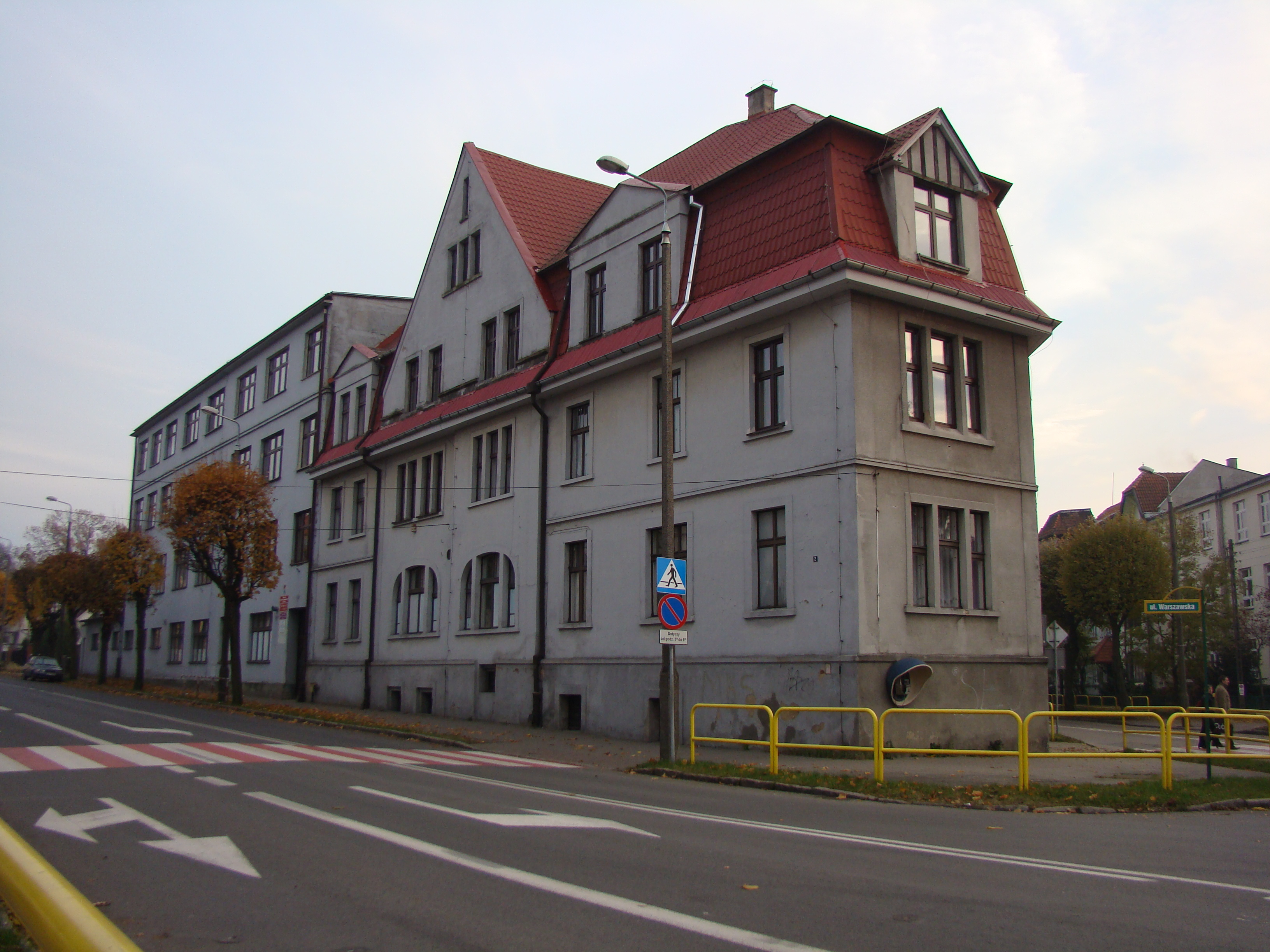 Saint Josef's High School in Chojnice